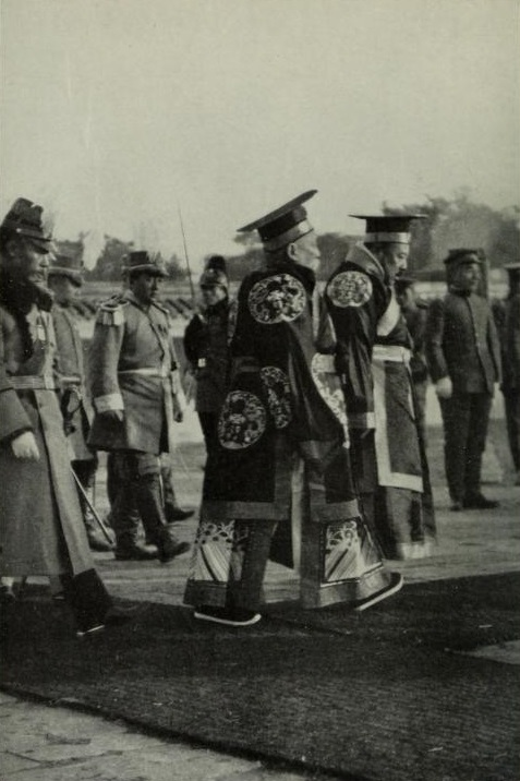 "Emperor Yuan Shih-kai."